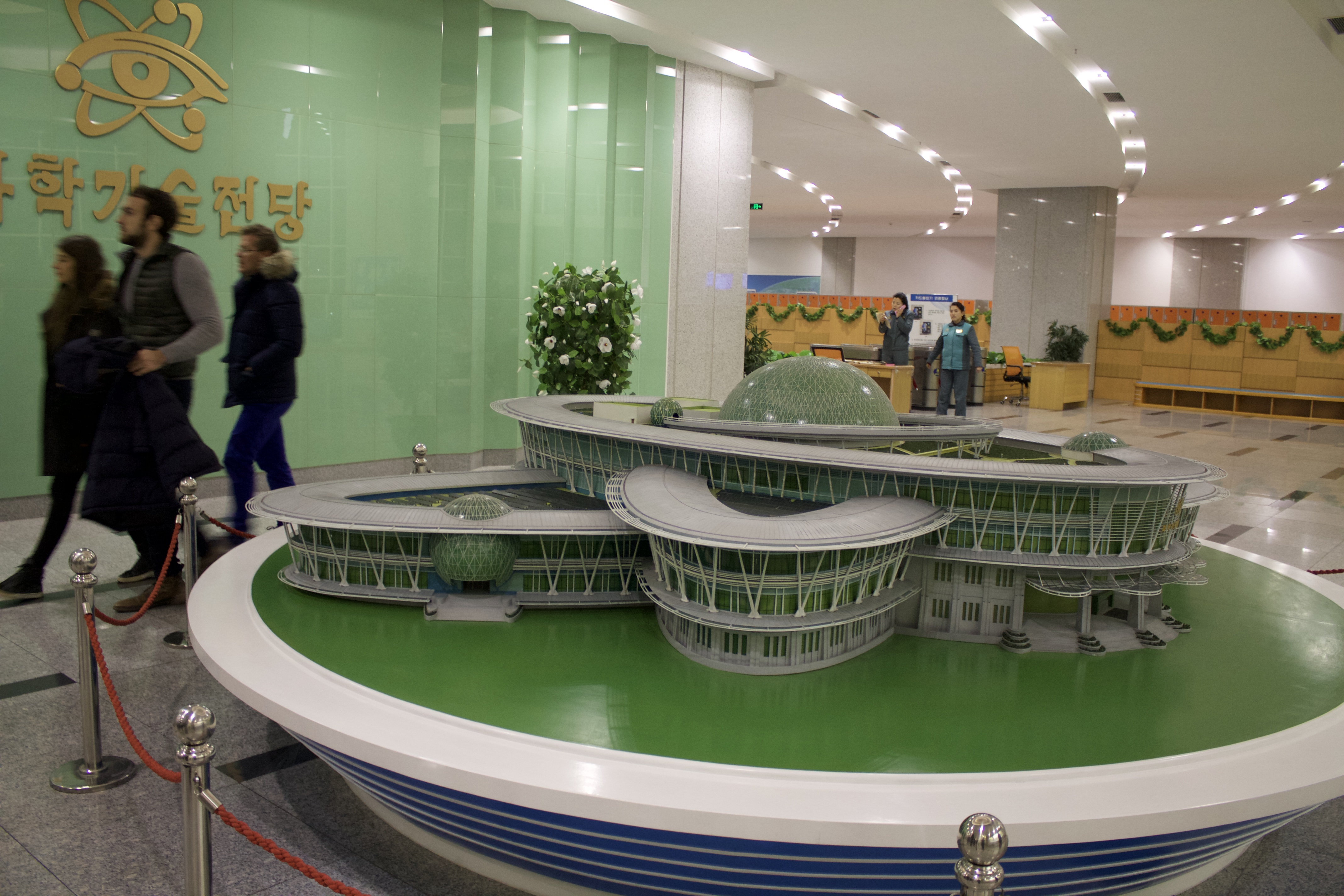 A replica of the building IN THE BUILDING